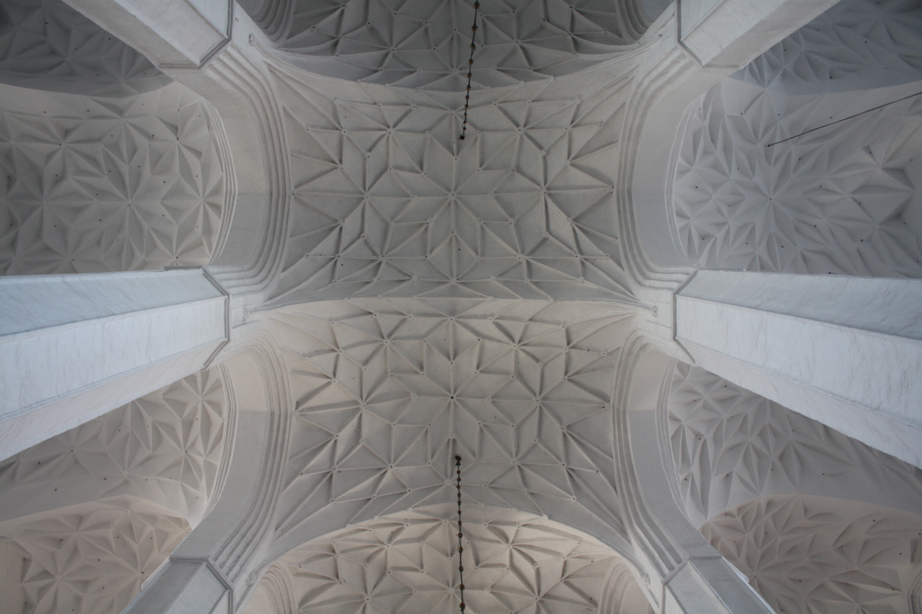 Gdańsk, St. Mary's Church